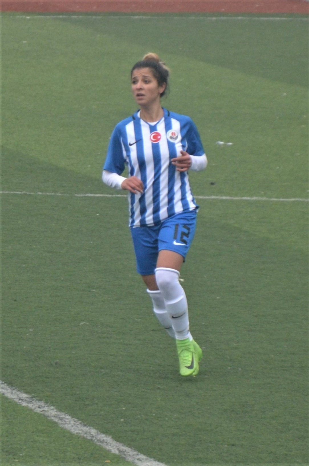 Ümran Özev of Hakkarigücü Spor in the 2018-19 Women's First League.